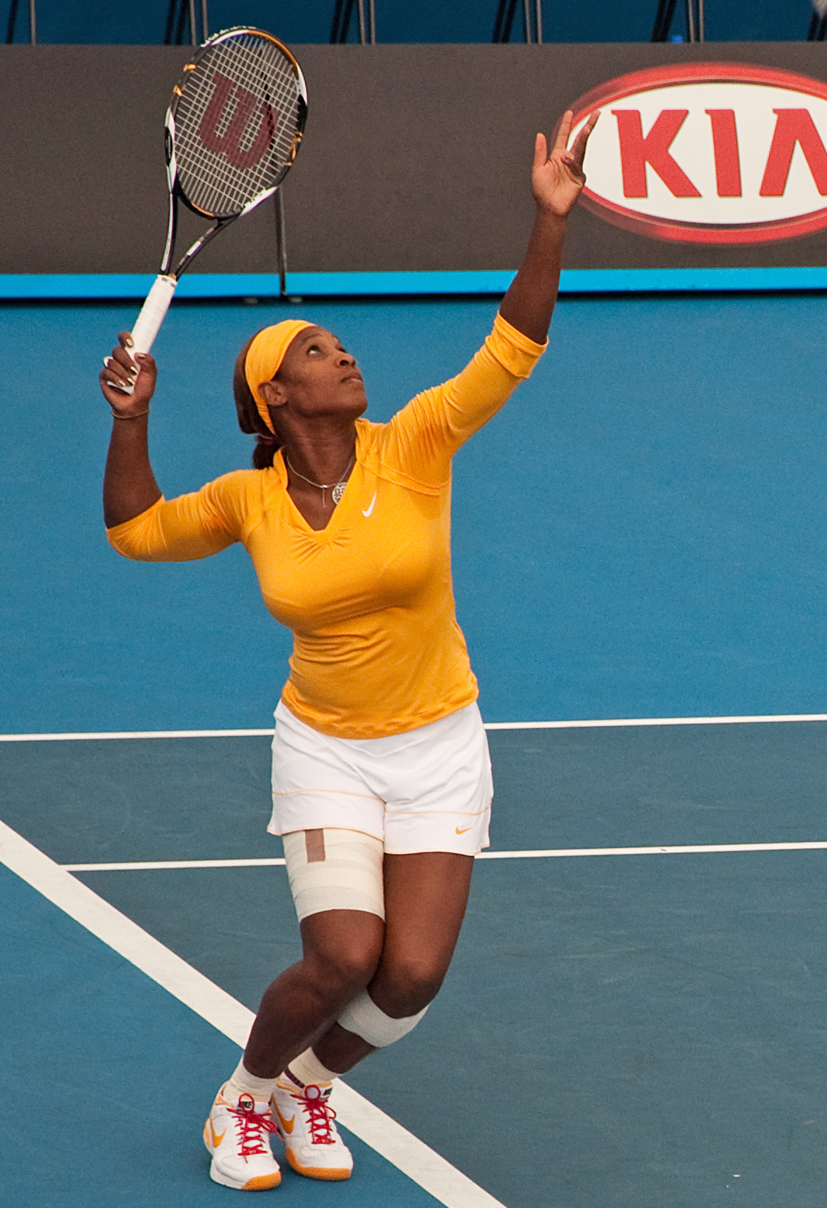 Melbourne Australian Open 2010 Serena Serve